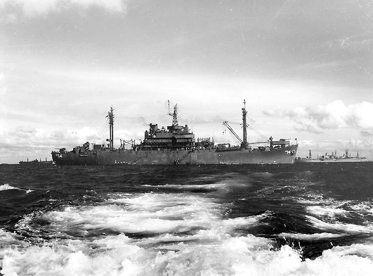 The U.S. Navy amphibious force command ship USS Teton (AGC-14), flagship of Rear Admiral John L. Hall, during the Okinawa operation. Probably photographed at an anchorage in the Ryukyu Islands, circa spring 1945.